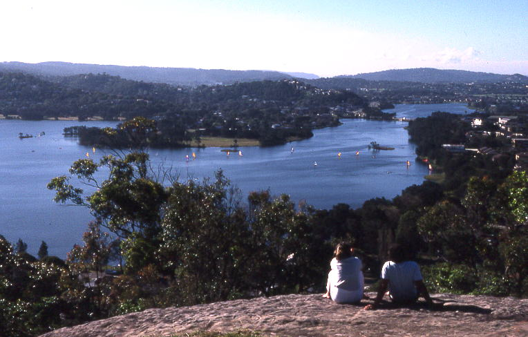 narrabeen lakes, sydney